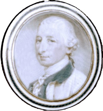 "Gov. Josiah Martin (1737-1786)." ca. 1775